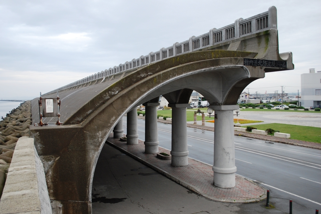 Breakwater dome at Wakkanai